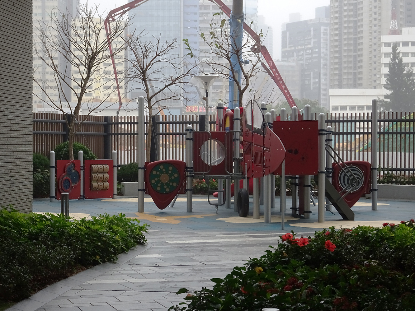 De Novo in Kai Tak, Hong Kong.